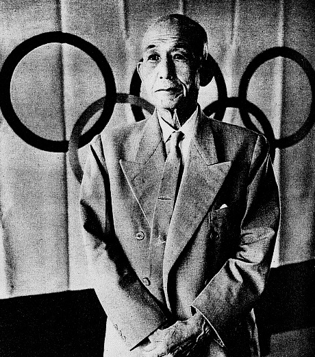 Shingoro Takaishi